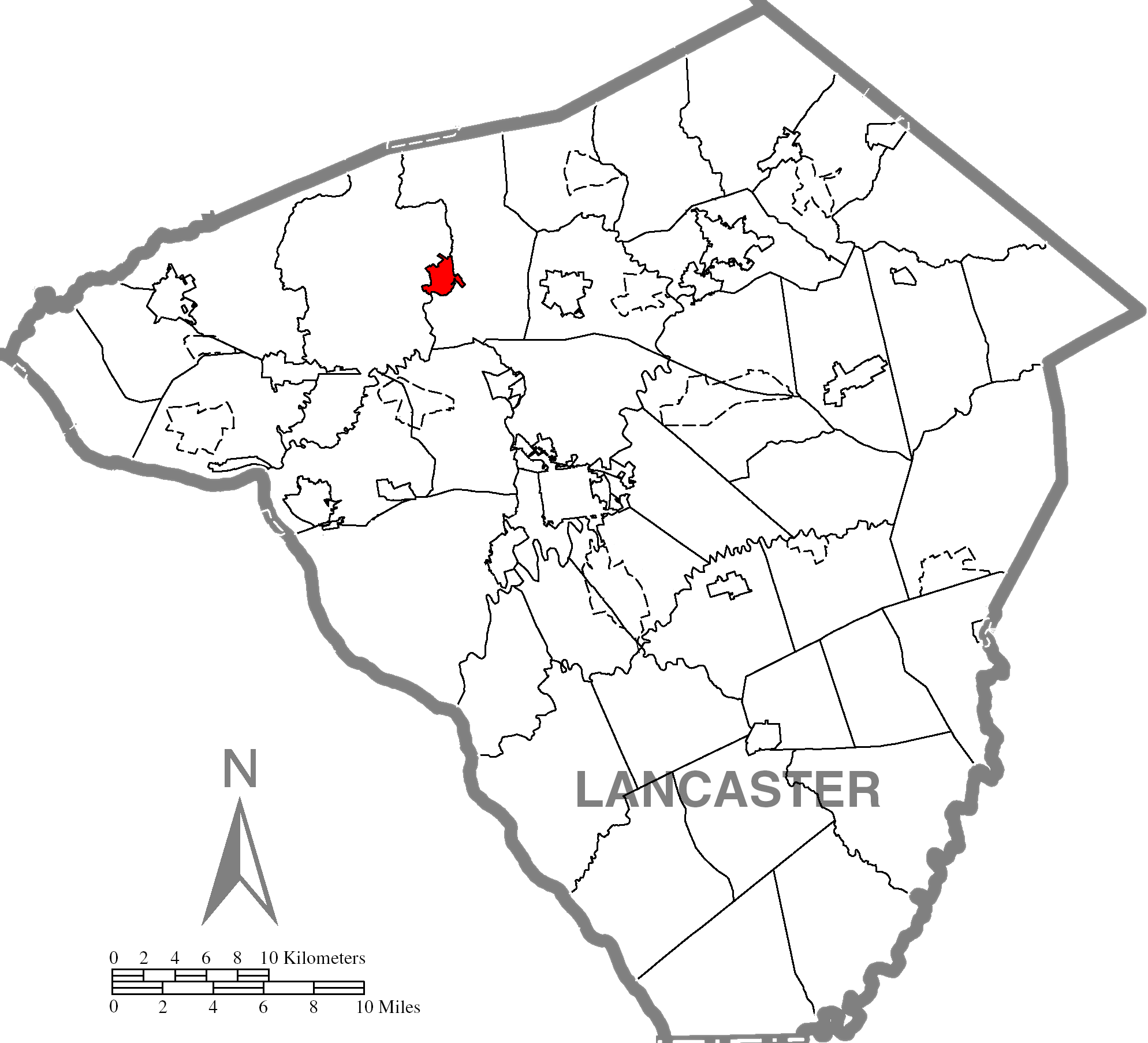 Highlighted Lancaster County map of Manheim.